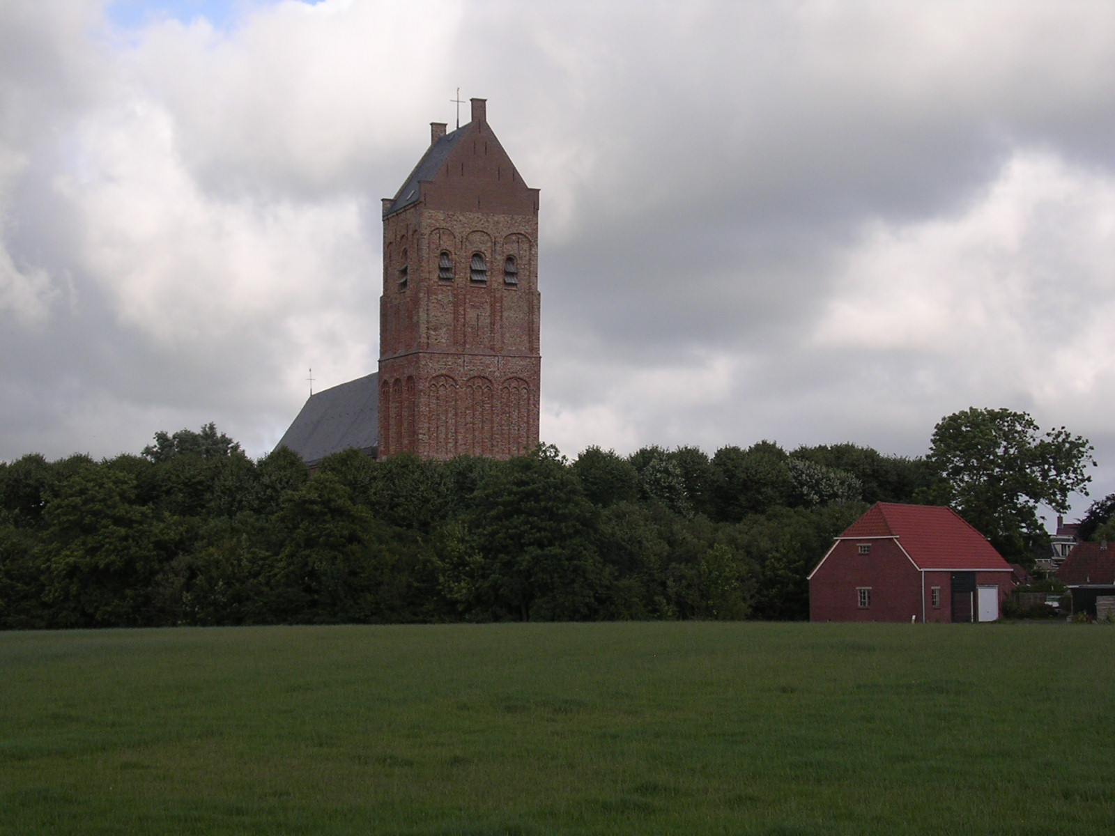 Church of Ferwert from the west